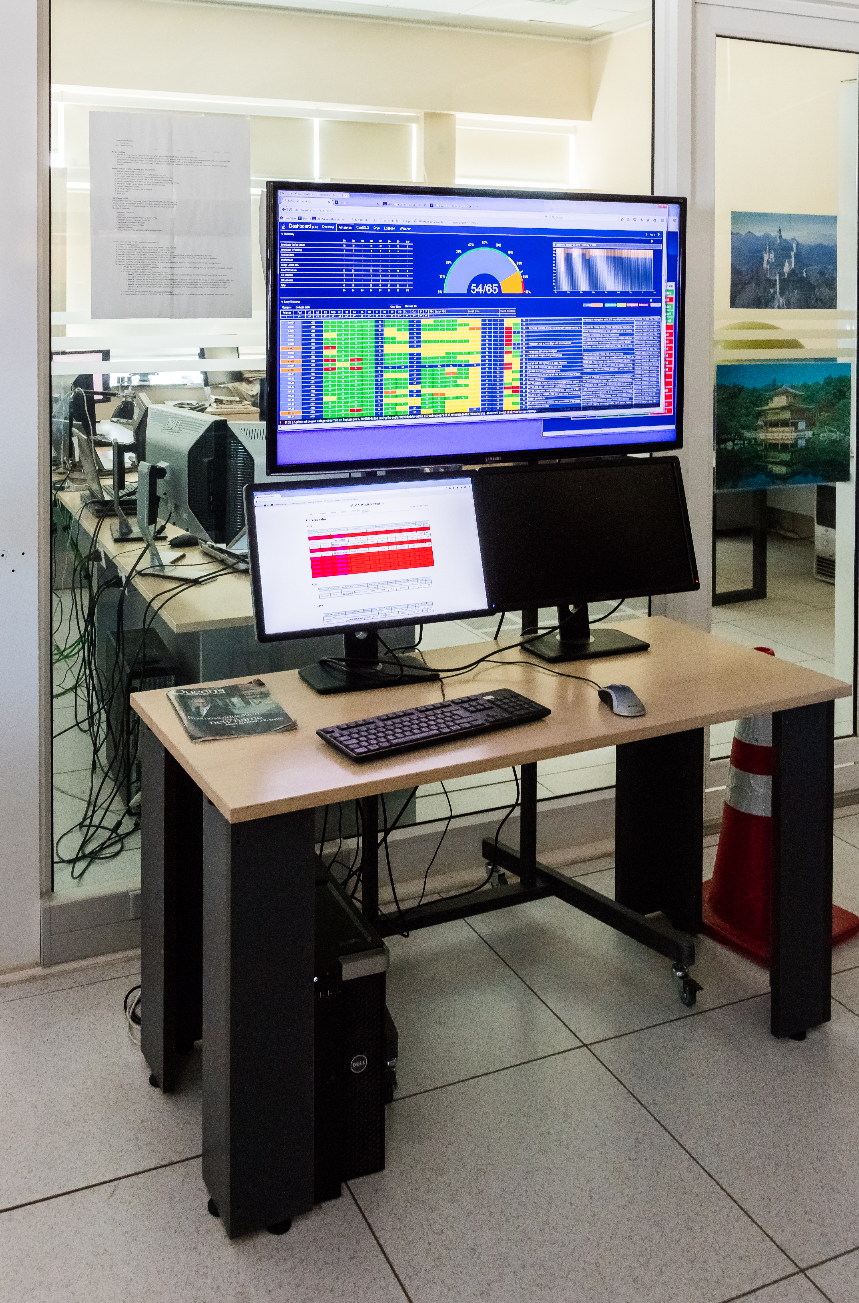 ALMA (Atacama Large Millimeter Array) space observatory, Atacama desert, Chile